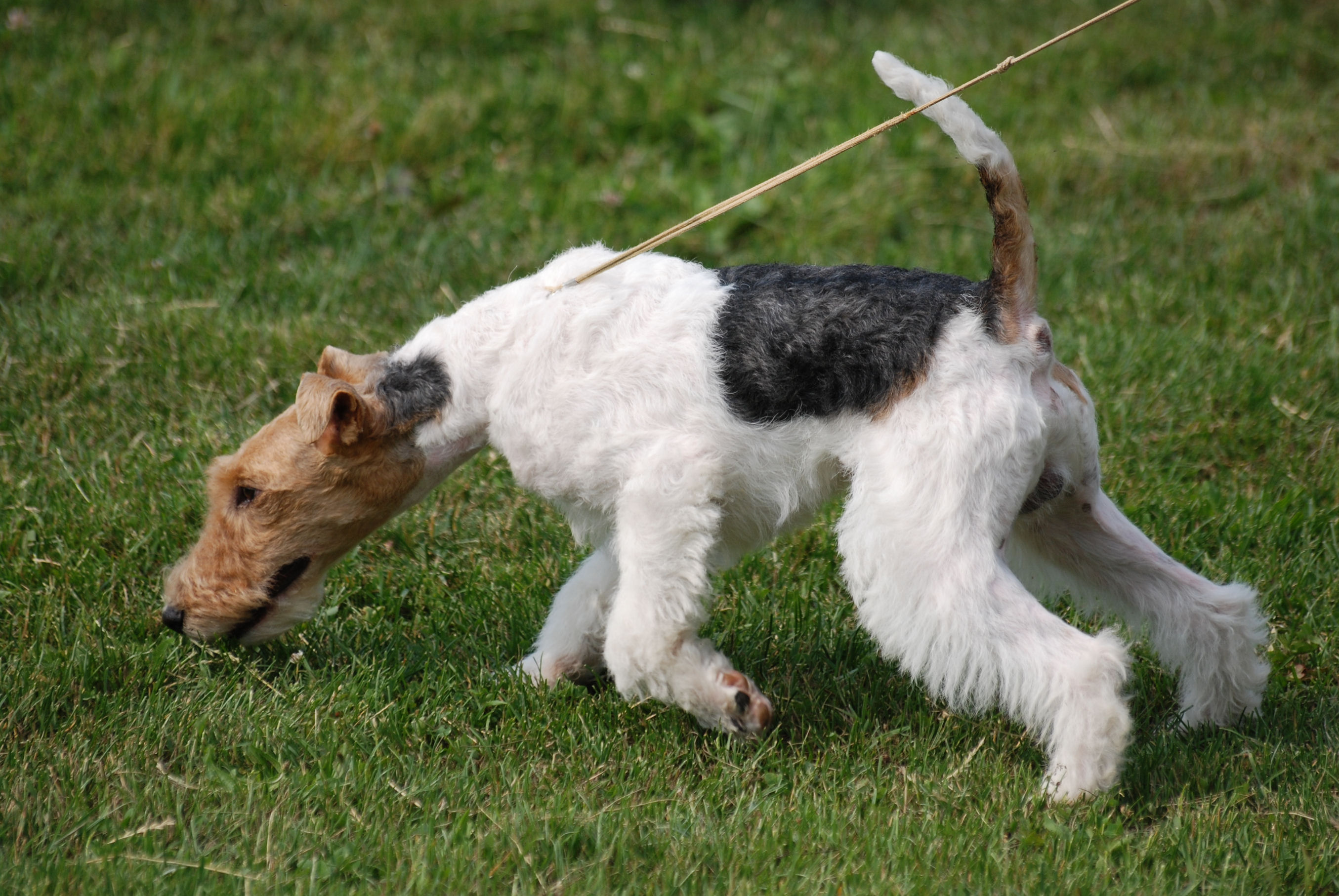 Fox Terrier Wire dog show Racibórz